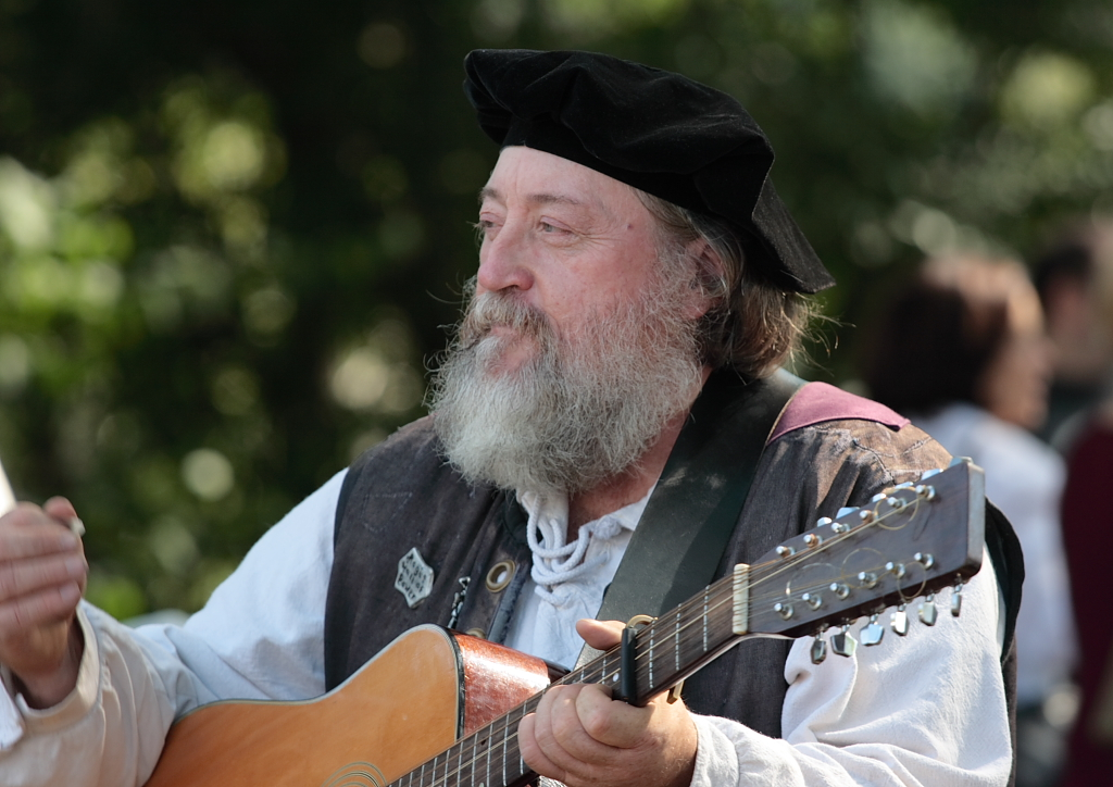 Minstrel at the Renaissance Fair, Fort Tryon Park, New York